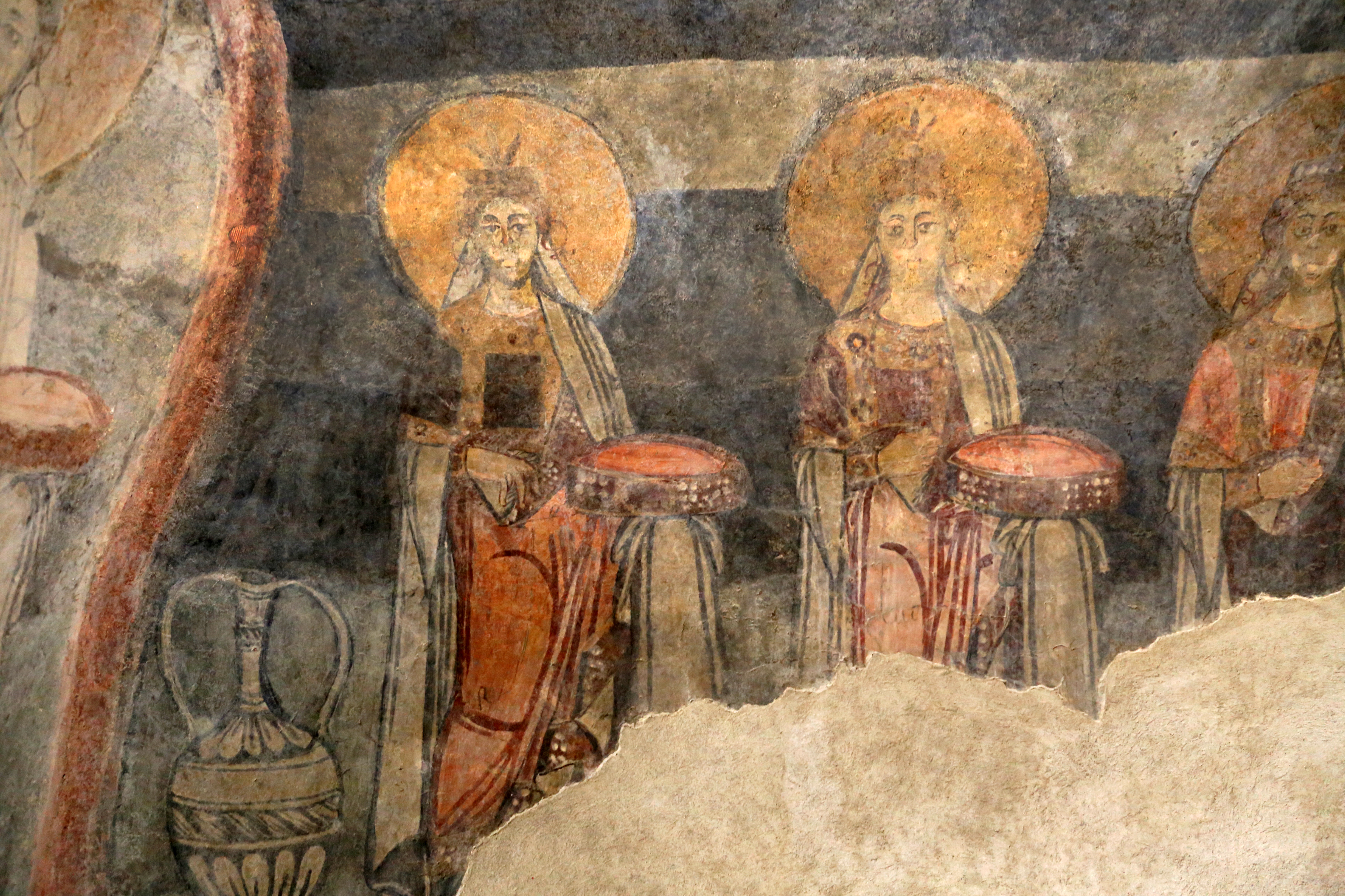 Epifanio Crypt